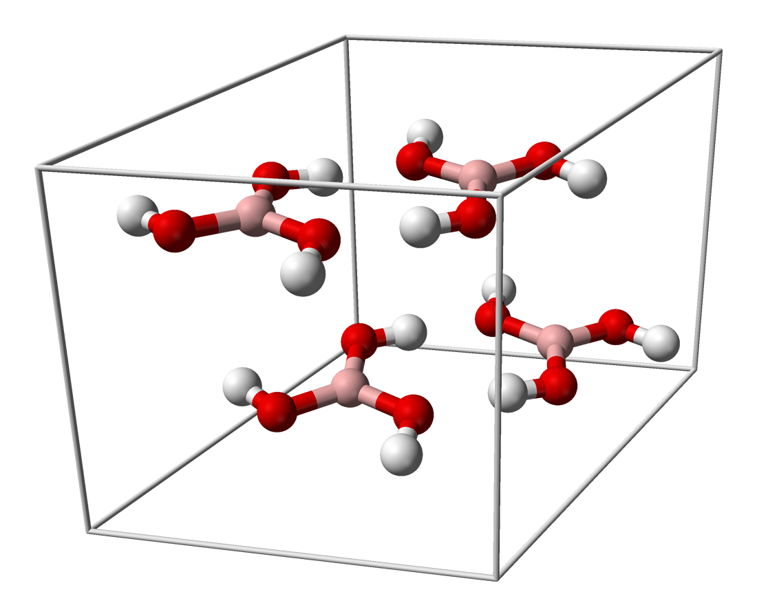 Unit cell of boric acid